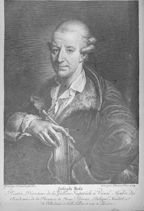 Gemälde von Paulus Haubenstricker, wiedergegeben im Stich von P. Coloman Felner 1789.